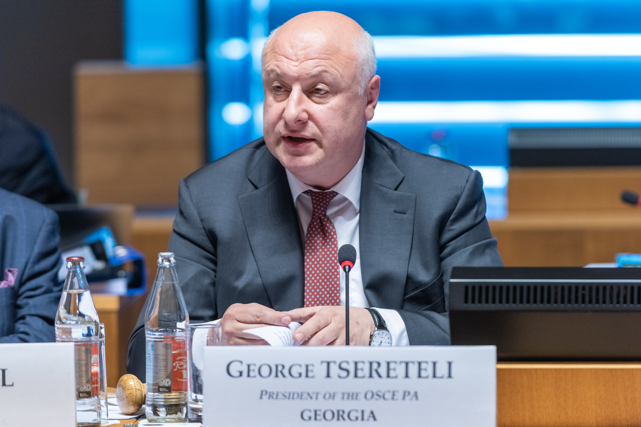 President of the Parliamentary Assembly of OSCE, George Tsereteli